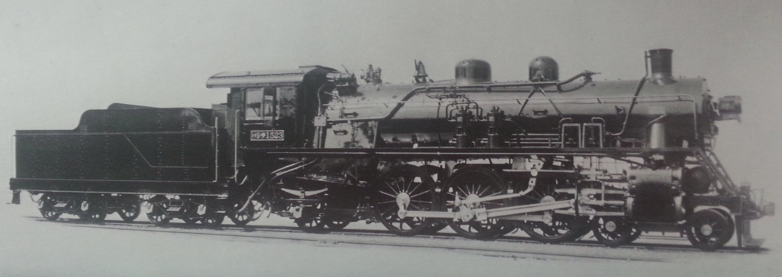 Builders photo of North China Transportation Co. locomotive Pashisa1523, built by Kisha Seizo, 1939